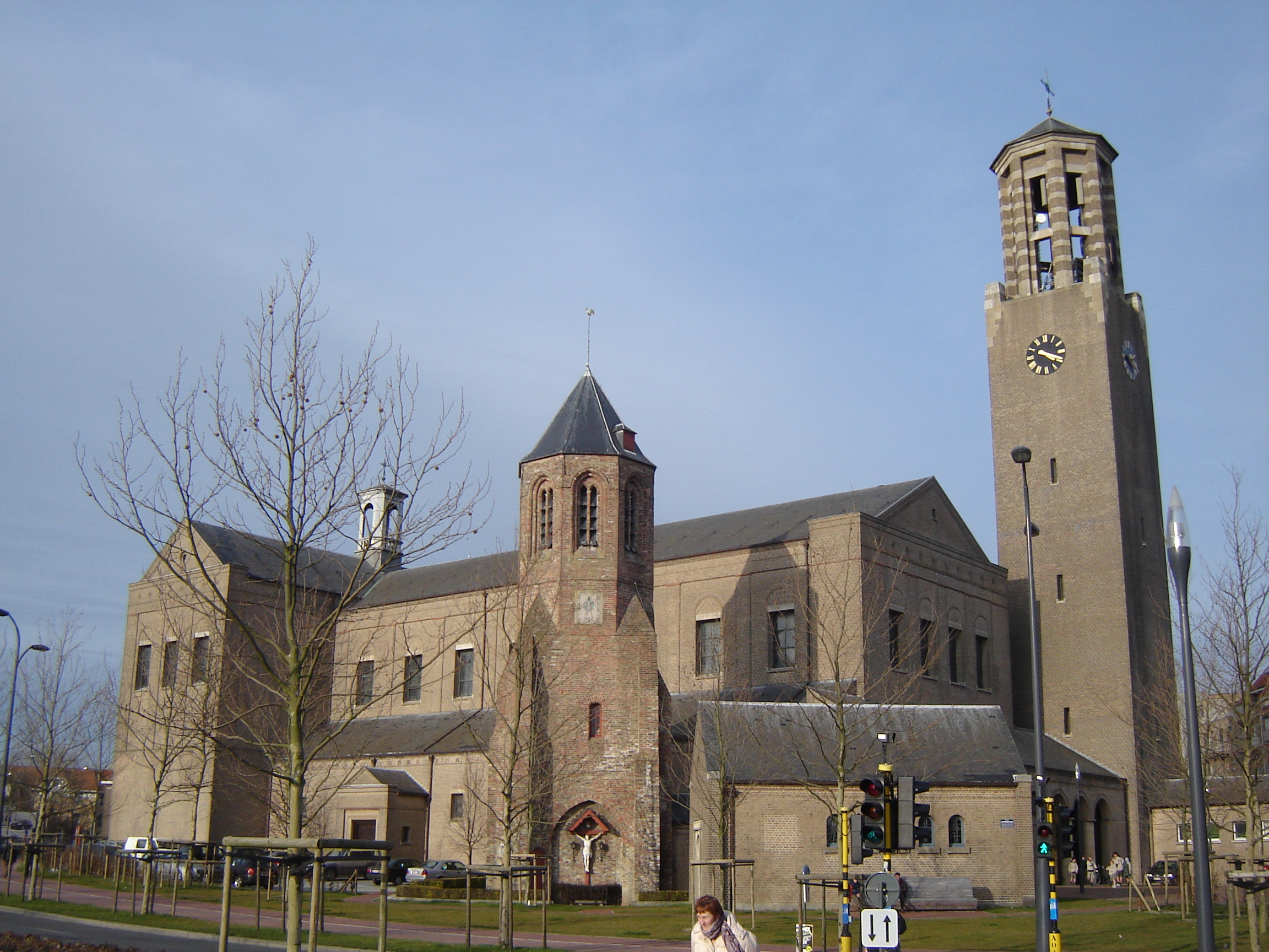 Parochiekerk "Onbevlekt Hart van Maria en Sint-Margaretha" in Knokke. Church of the Immaculate Heart of Mary and Saint Margaret. Knokke, Knokke-Heist, West Flanders, Belgium